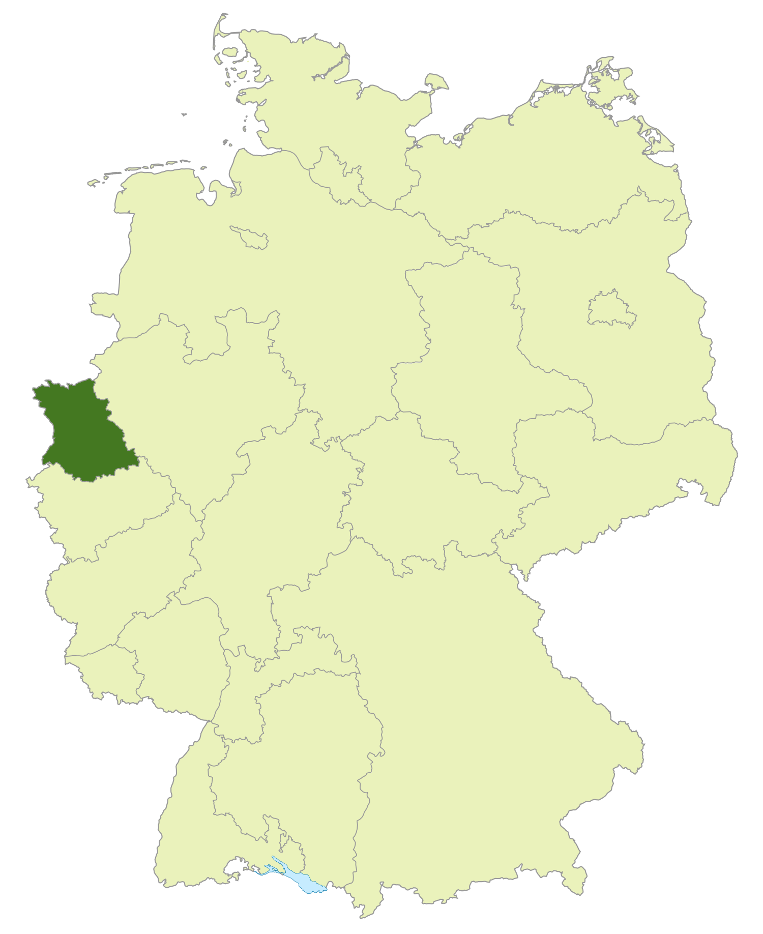 Map of regional soccer association Niederrhein, Germany